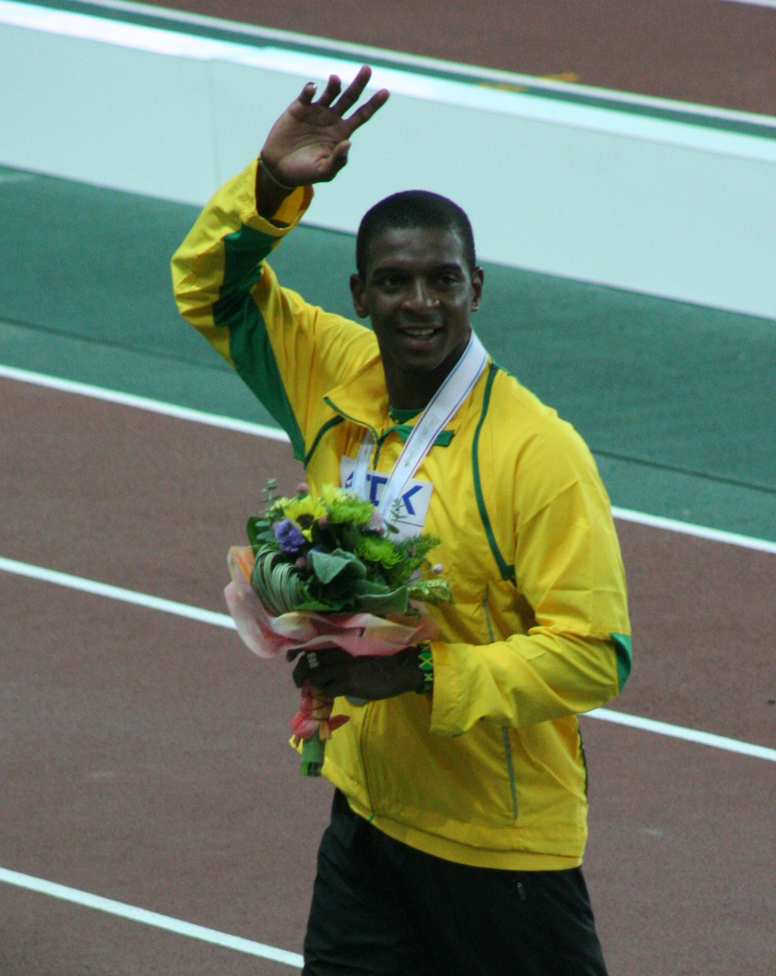 World Athletics Championships 2007 in Osaka - Maurice Smith from Jamaica after finishing second in the decathlon